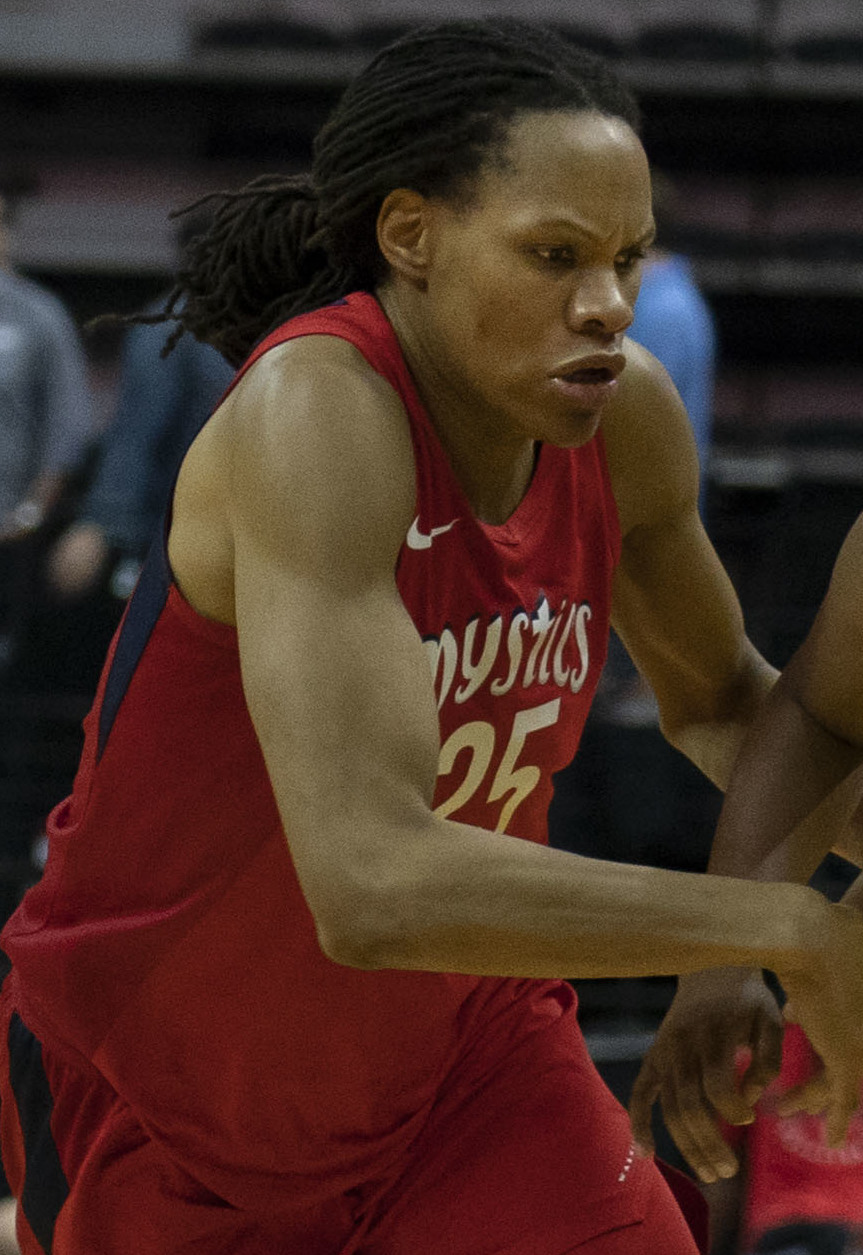 Fever at Mystics 5/20/18